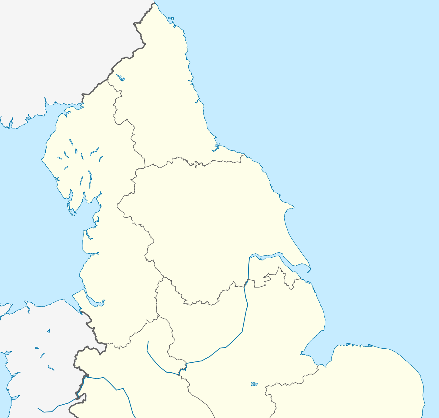 Location map of Northern England Equirectangular projection, N/S stretching 170 %. Geographic limits of the map: * N: 56.0° N * S: 52.33° N * W: 4.17° W * E: 2.0° E